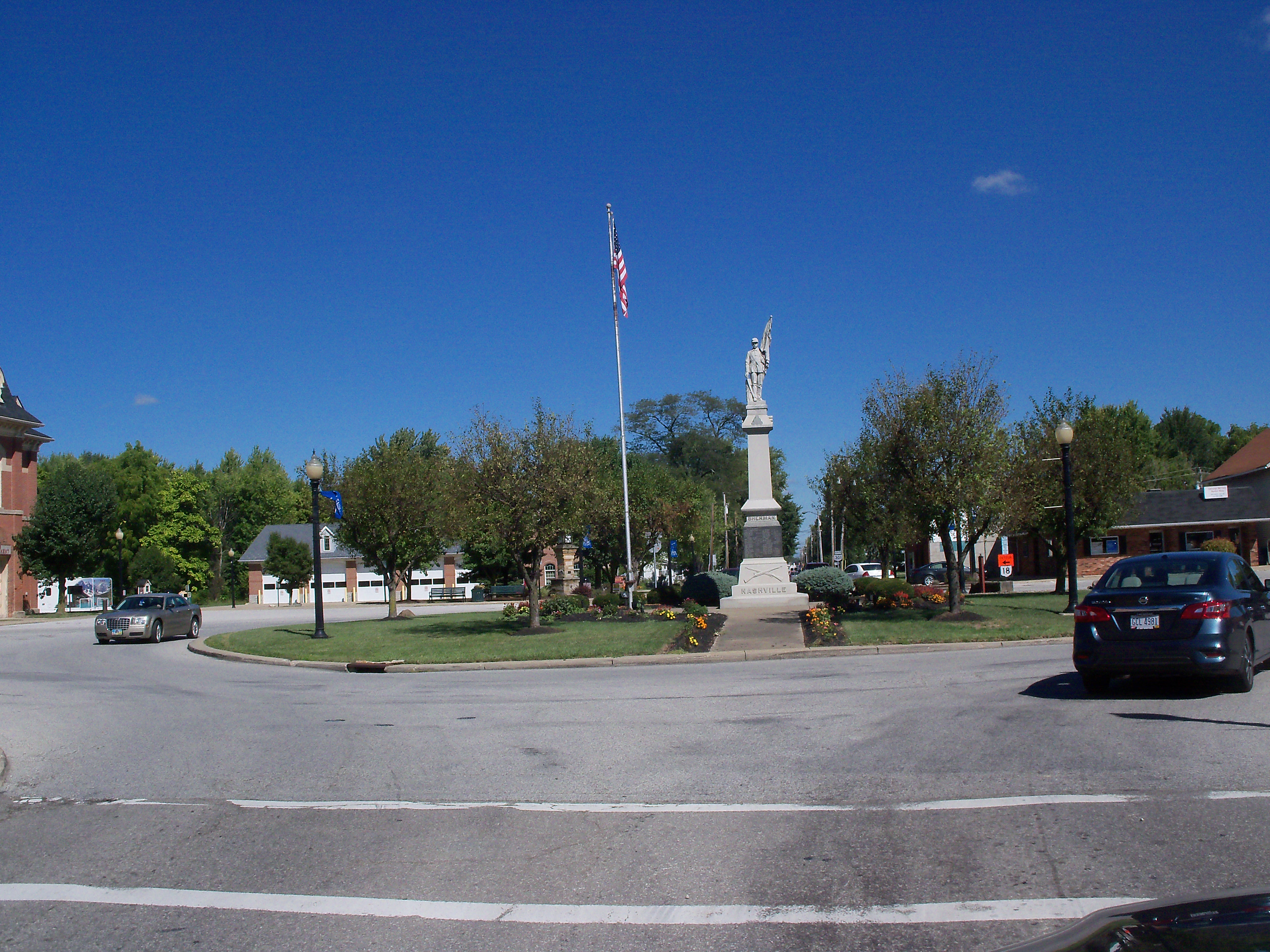 Roundabout in LaGrange, Ohio has Civil War Monument